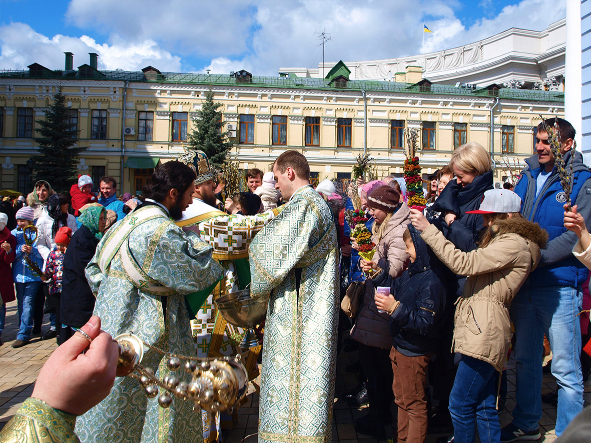 Palm Sunday in Kyiv (Ukraine)